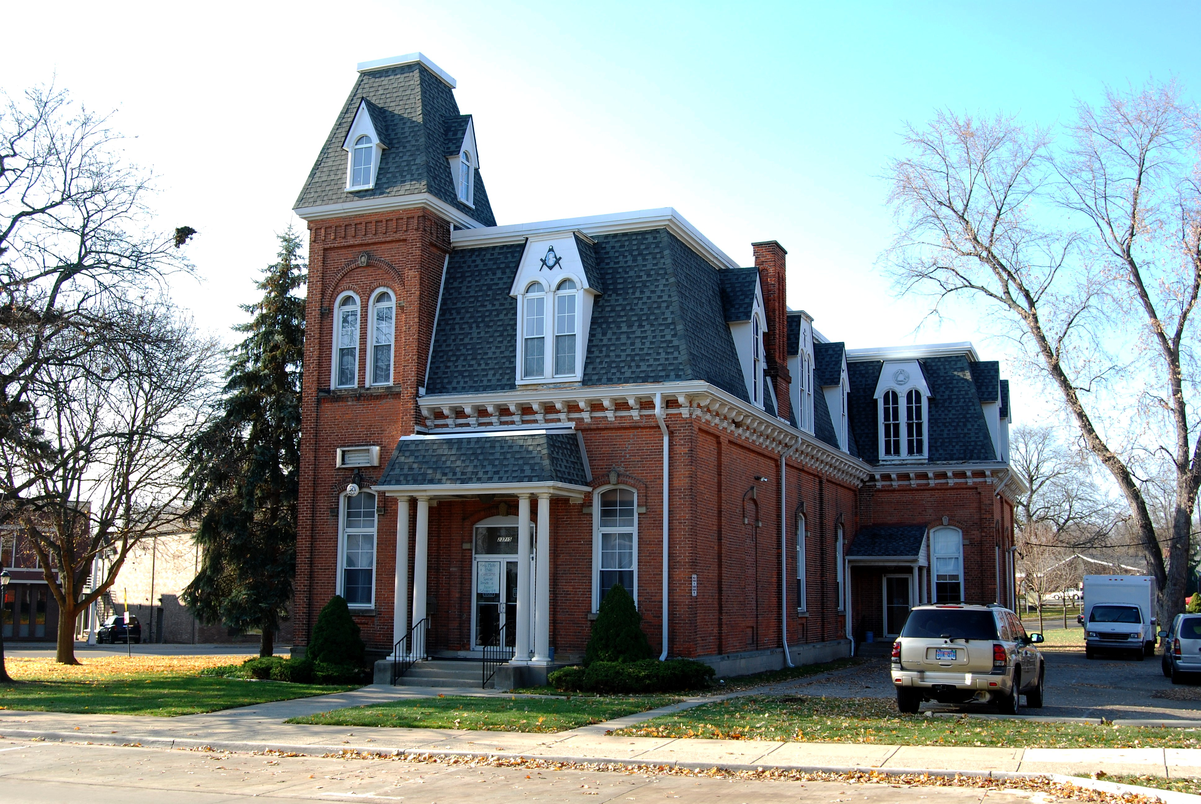 Farmington, Michigan downtown, Masonic Lodge